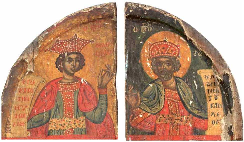 Royal Doors in Saint Athanasius Church in Bogomila, 16th Century Detail